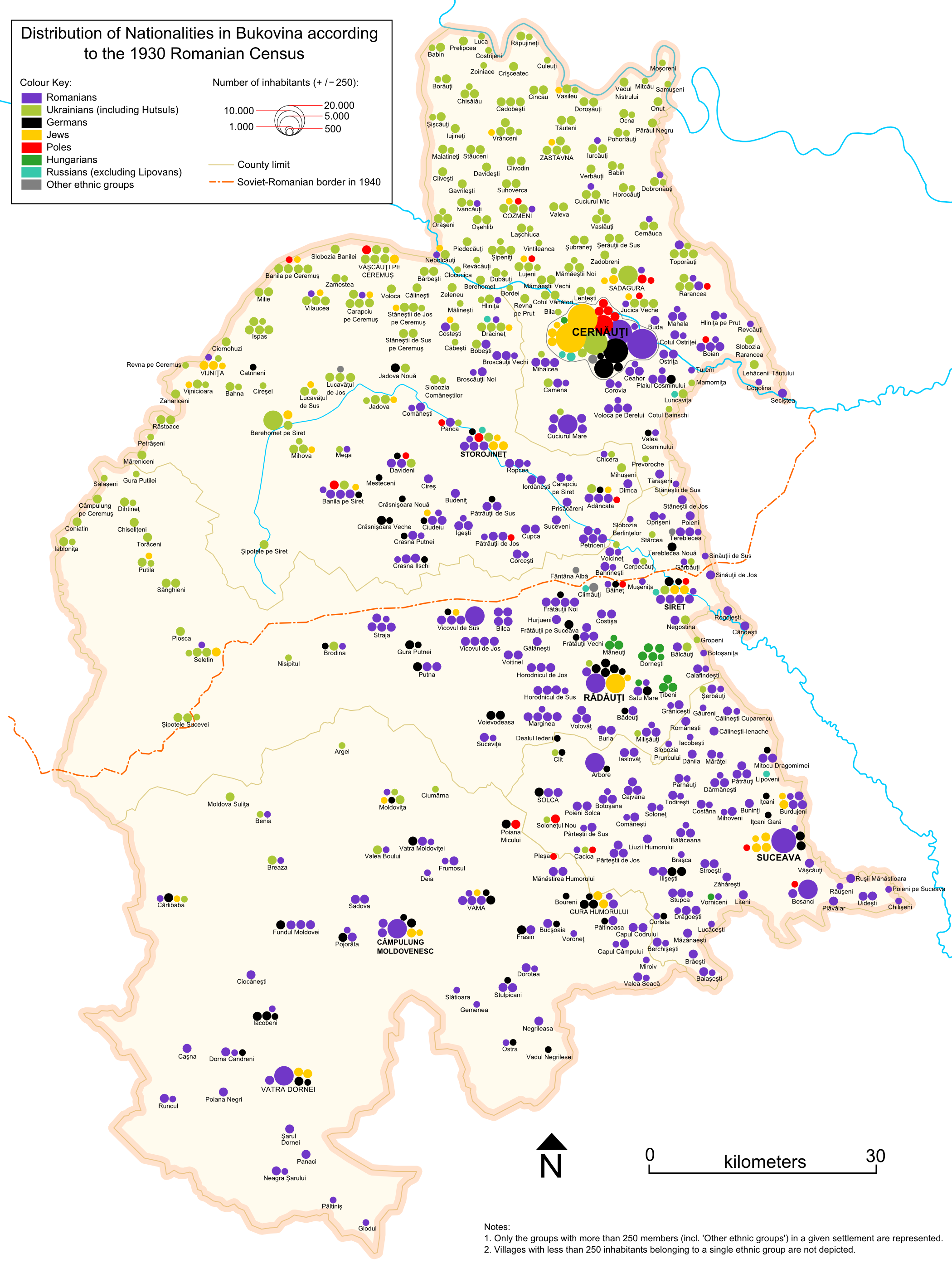 Own work.